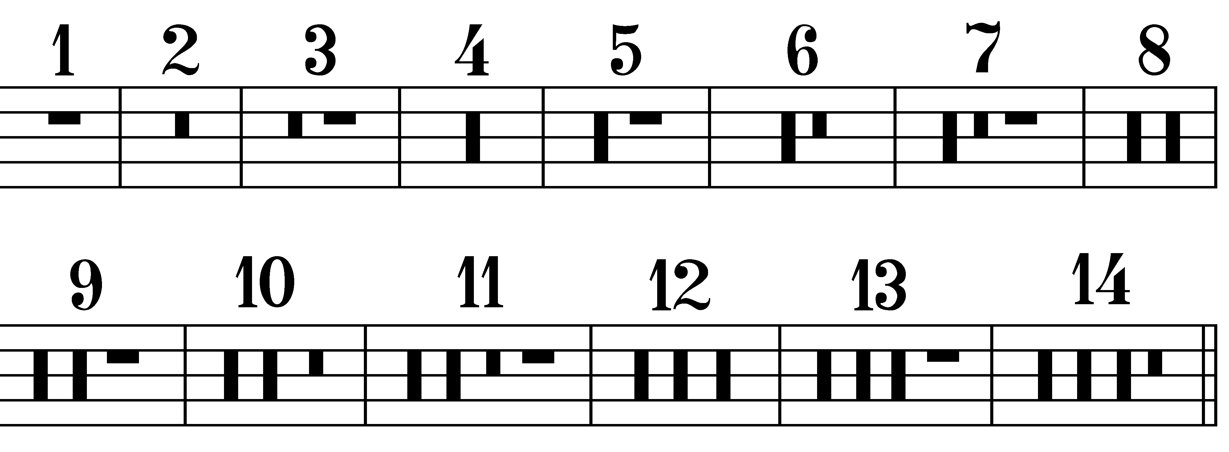 Picture of old multirests from 1 to 14 bars